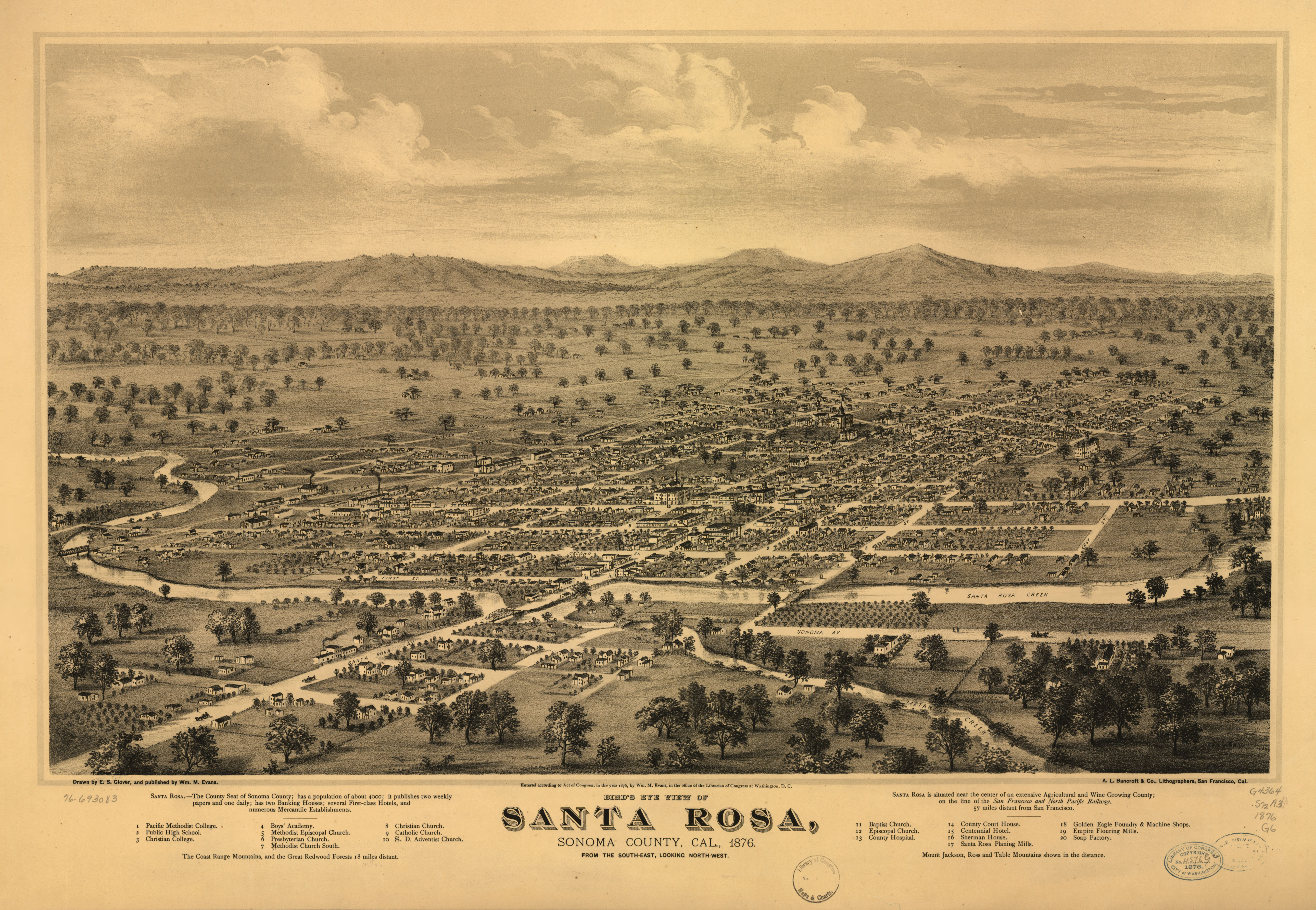 Perspective map not drawn to scale. "From the south-east looking north-west." LC Panoramic maps (2nd ed.), 48 Available also through the Library of Congress Web site as a raster image. Indexed for points of interest. AACR2: 100; 651/1; 710/2